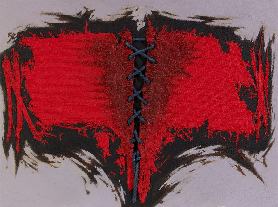 Jiménez-Balaguer When one gets attached 2010